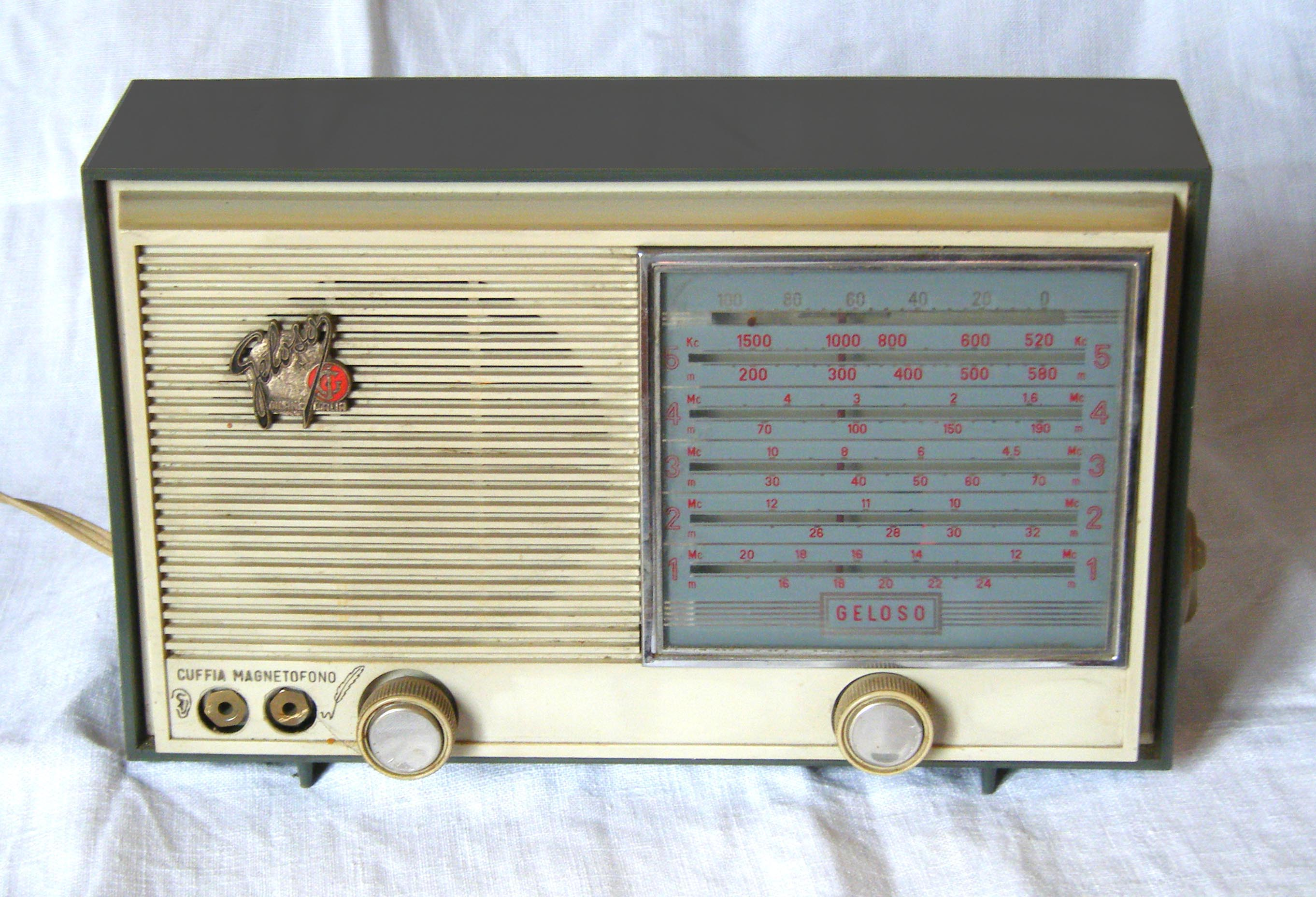 Old radio Geloso about 1970. The Geloso 16 series was introduced in 1969, in the same cabinet but without phono and microphone sockets [1]. It had dual line or battery power options, although the cabinet wasn't really designed for portability.